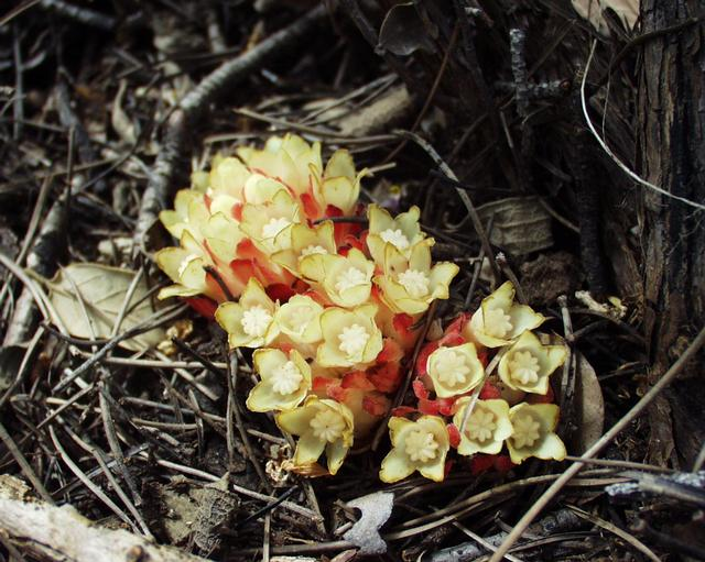 (en) Yellow Cytinus (Cytinus hypocistis subsp.clusii), a photography originating of the internet site The accord of the autor, H. Brisse, is here. (fr) Cytinet rouge ou Cytinelle (Cytinus hypocistis subsp.clusii), une photographie issue du site internet L'accord de l'auteur, H. Brisse, se situe ici. (de)Gemeiner Hypocist, (it)Ipocisto comune, (es)Frare d'estepa